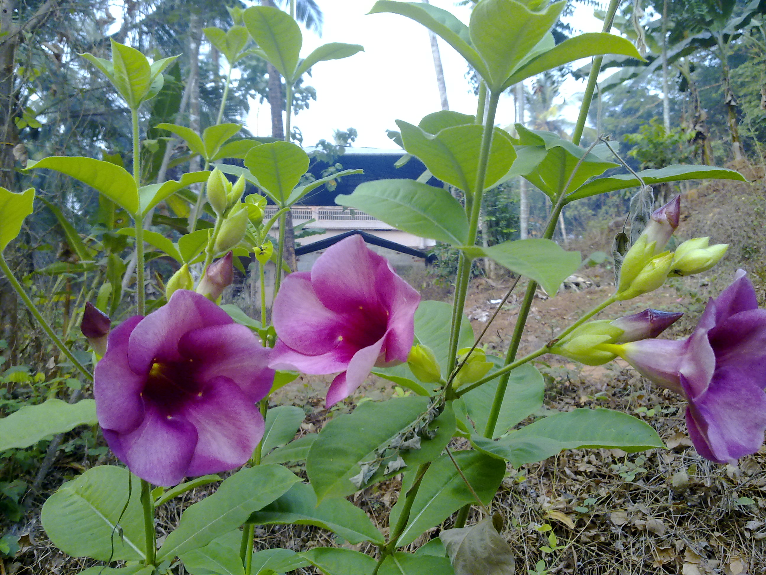 .By irvin calicut . kolambi poovu rare pink color from thottumukkom